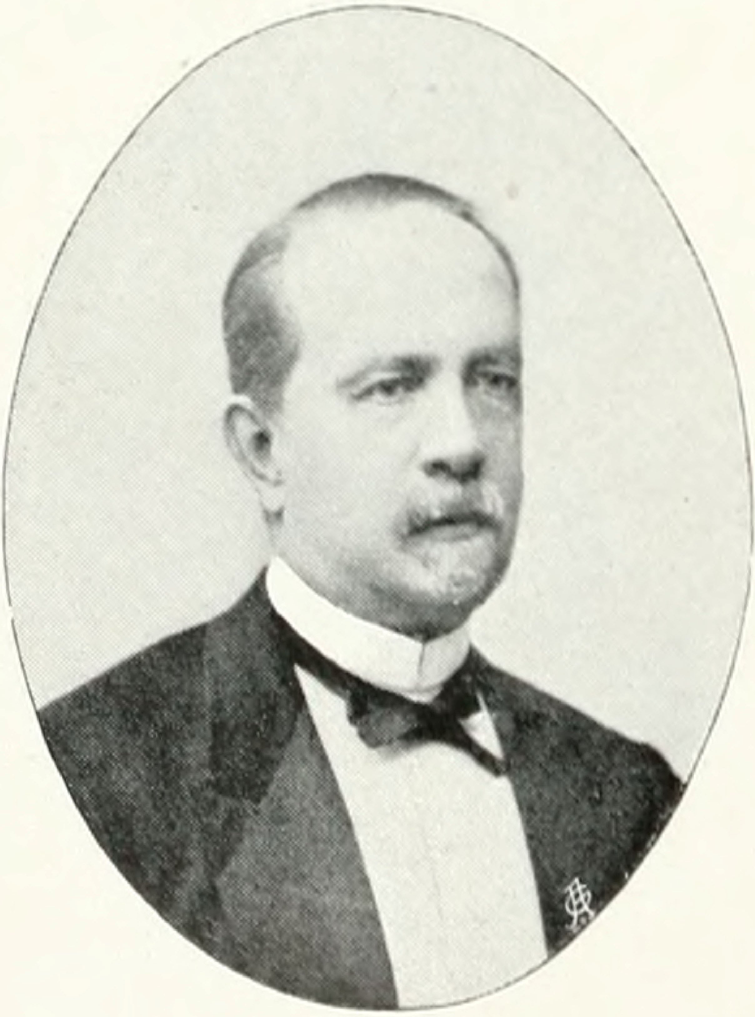 Count Robert De la Gardie (1823-1916), speaksman of the lower house of teh parliament of Sweden